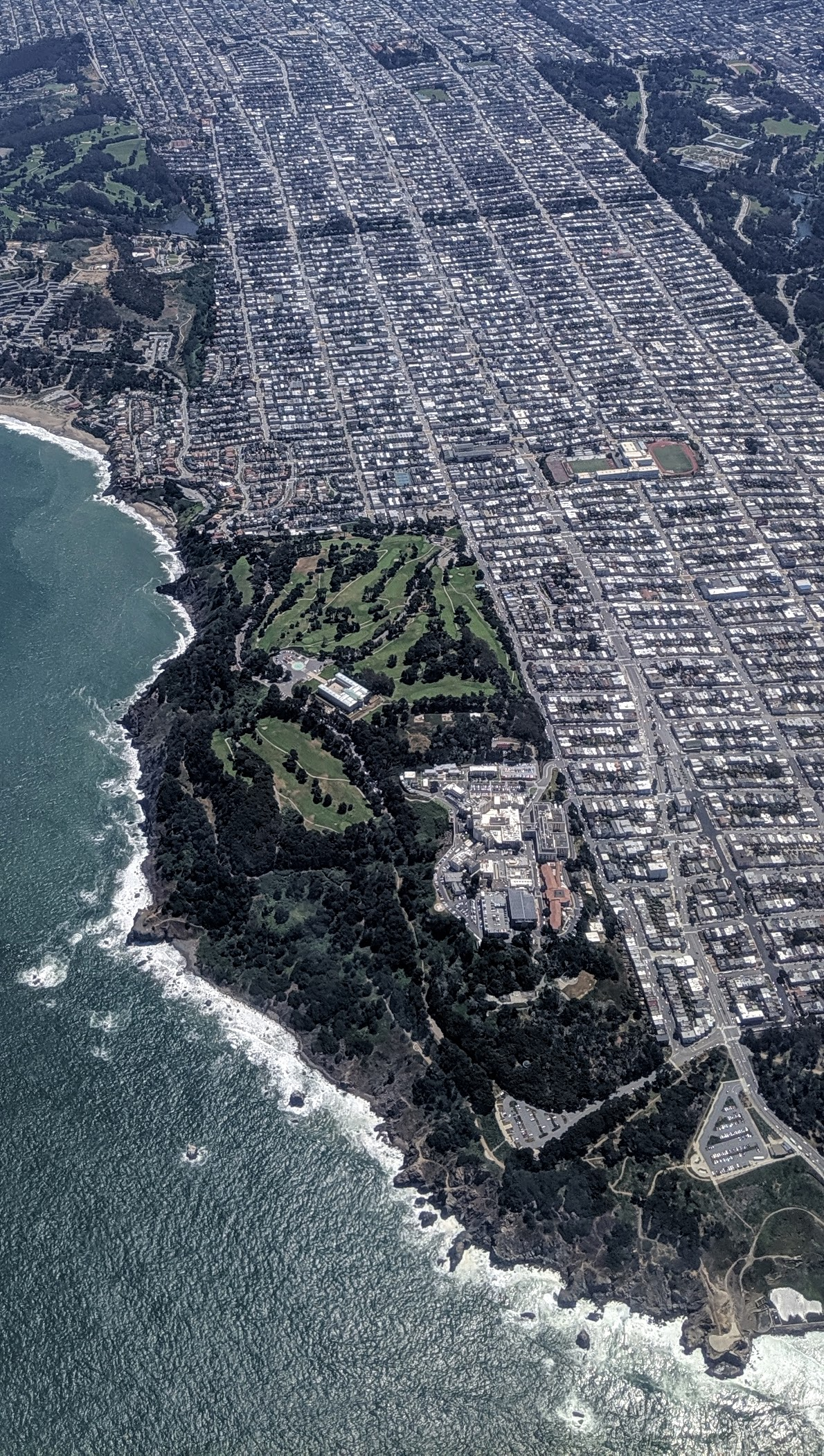 Aerial view from the west-northwest of Lands End and Sea Cliff and Richmond districts, San Francisco